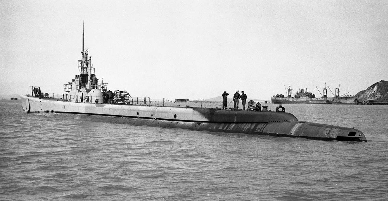 Aft port quarter view of Haddo (SS-255) departs Mare Island on 10 April 1945. Mazama (AE-9) is loading ammunition at the yards ammunition deport in the background. (US Navy photo # 2551-4-45)